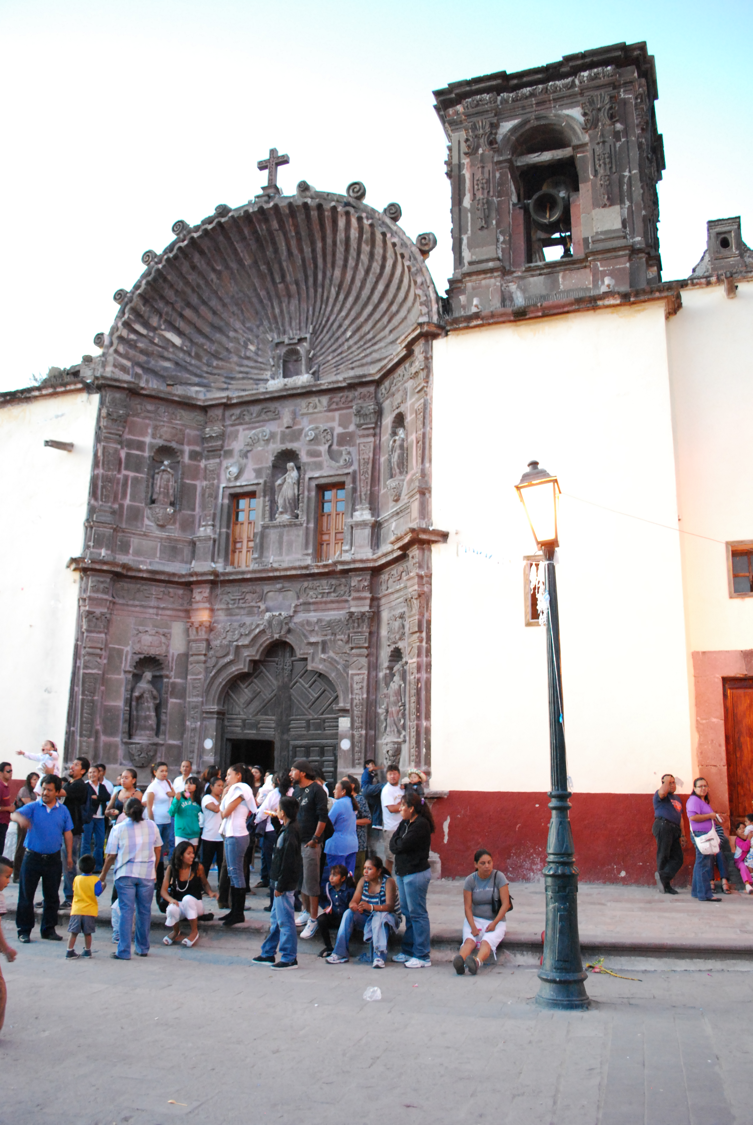 Facade of the Nuestra Señora de la Salud Church in San Miguel Allende, Guanajuato, Mexico